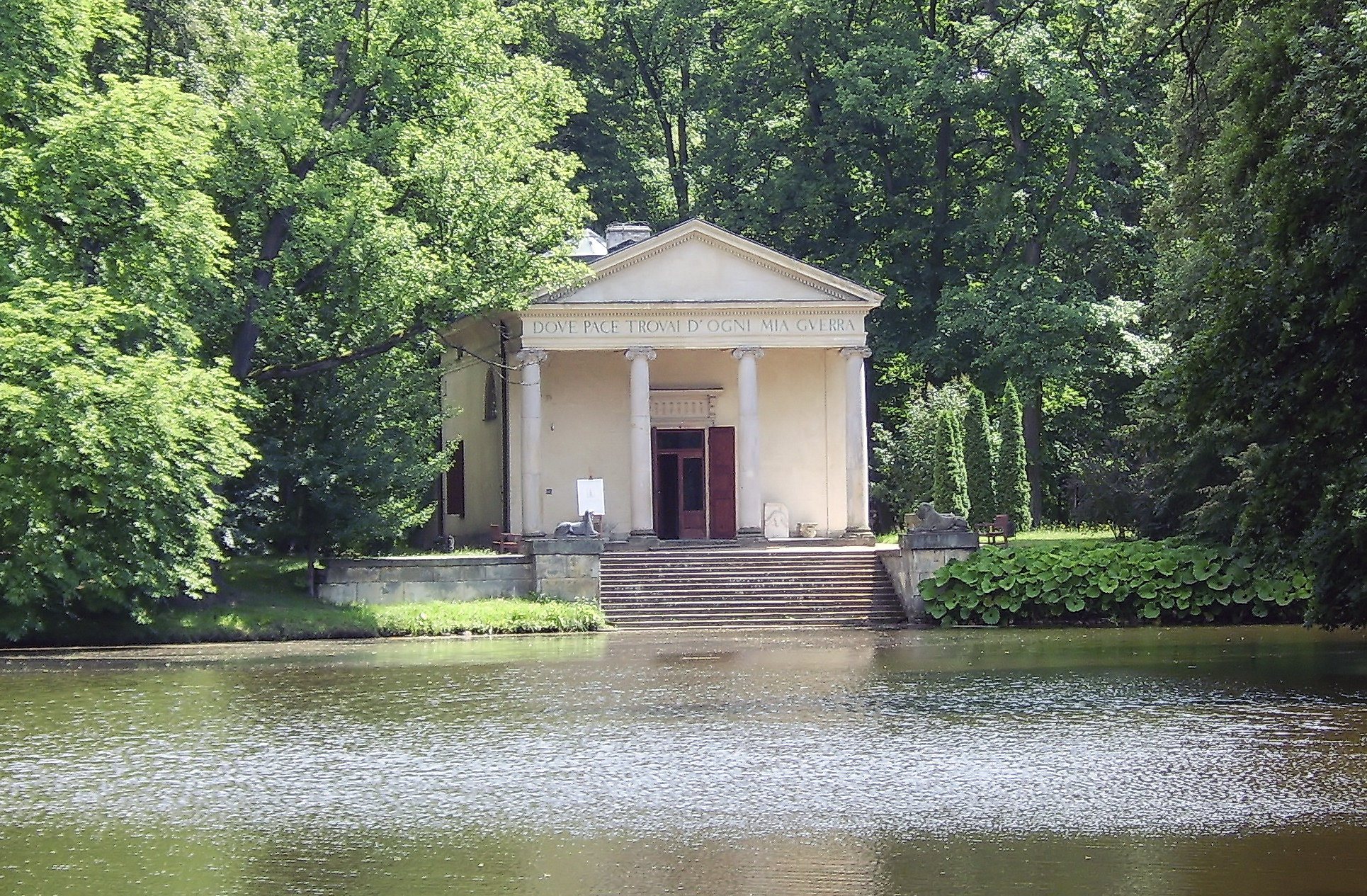 Temple of diana (build in 1783-1785) in Polish city Arkadia